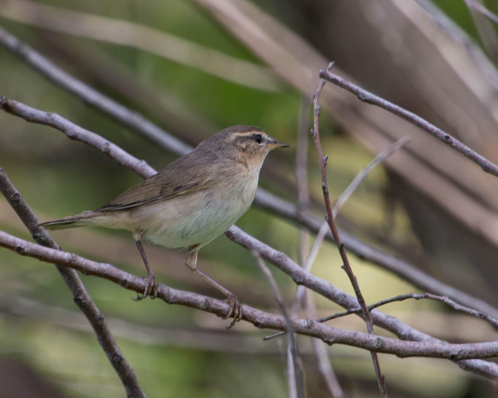 20th Nov 2013, Nature Trail, Bueng Boraphet, Nakorn Sawan province, central Thailand.